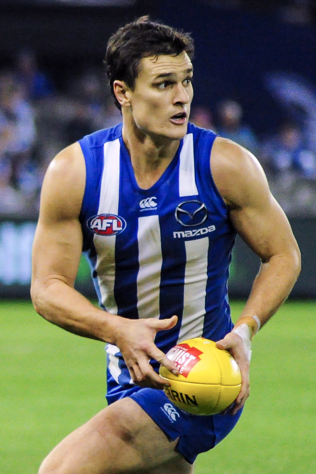 Scott Thompson during the AFL round six match between North Melbourne and Port Adelaide on Saturday, 28 April 2018 at Etihad Stadium in Melbourne, Victoria.